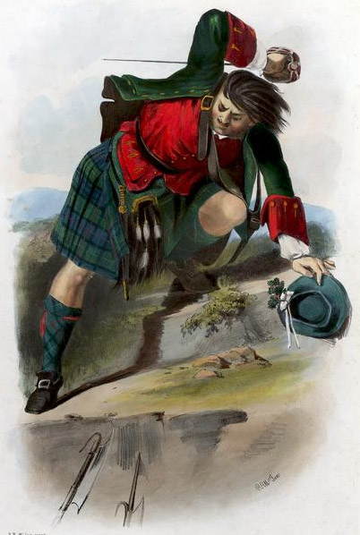 "Mackenzie". A plate illustrated by R. R. McIan, from James Logan's The Clans of the Scottish Highlands, published in 1845.